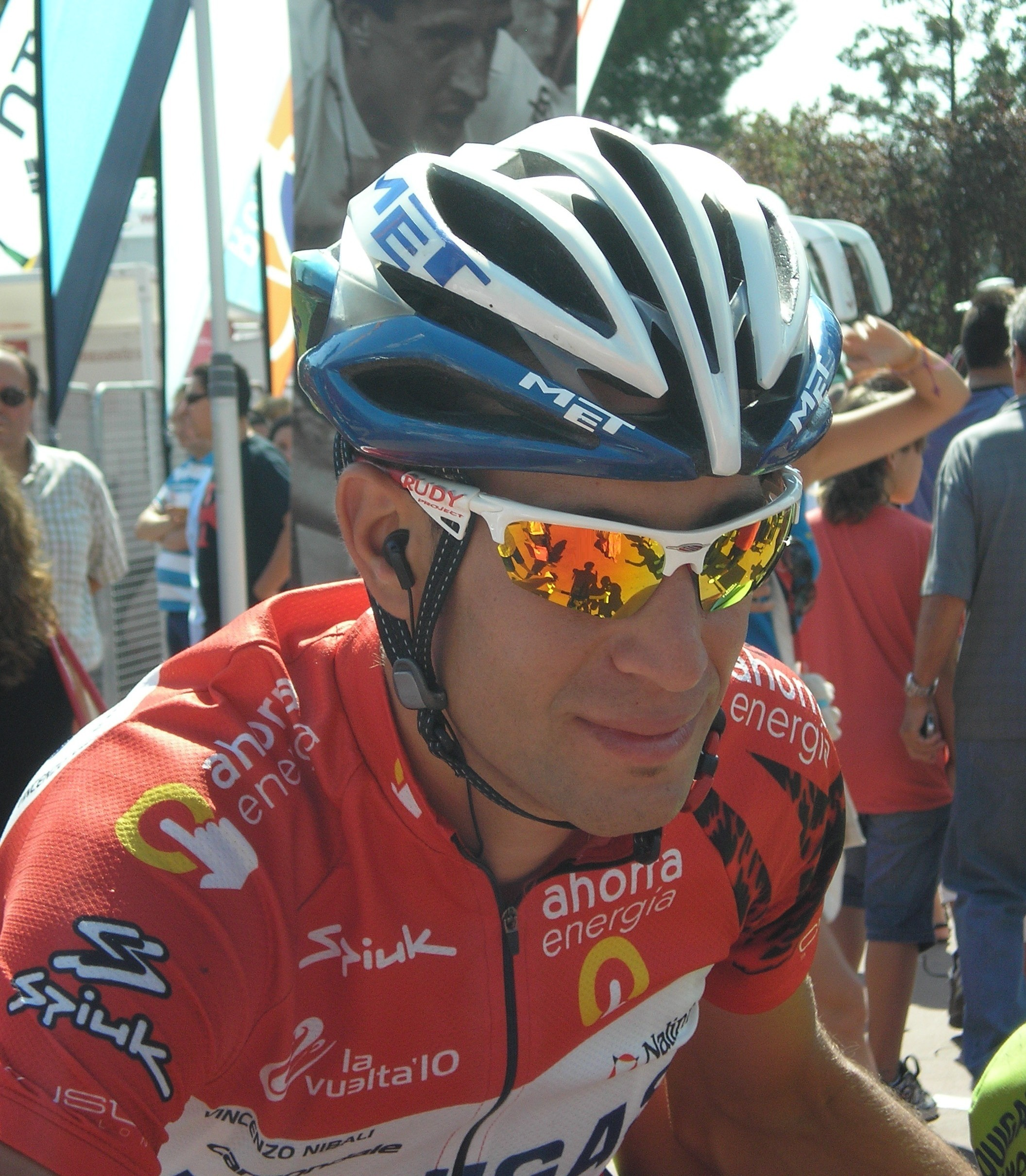 Vincenzo Nibali, winner of the 75th Vuelta a España, 2010.